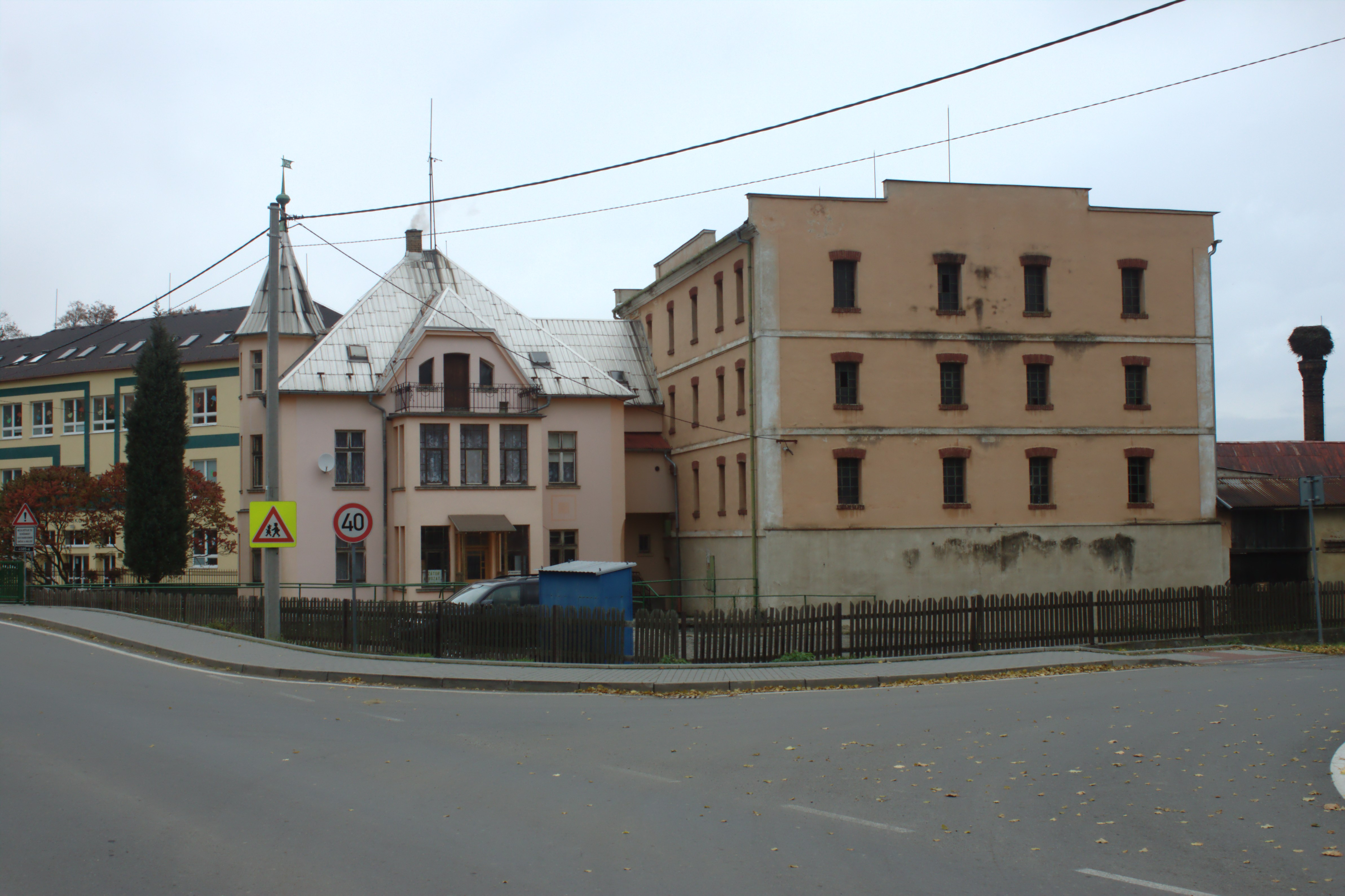 A road in the village of Loučky, Moravian-Silesian Region, CZ